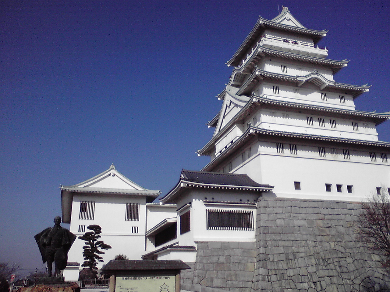 Joso City Regional Exchange Center, aka Toyoda Castle, in Joso City, Ibaraki Prefecture, Japan